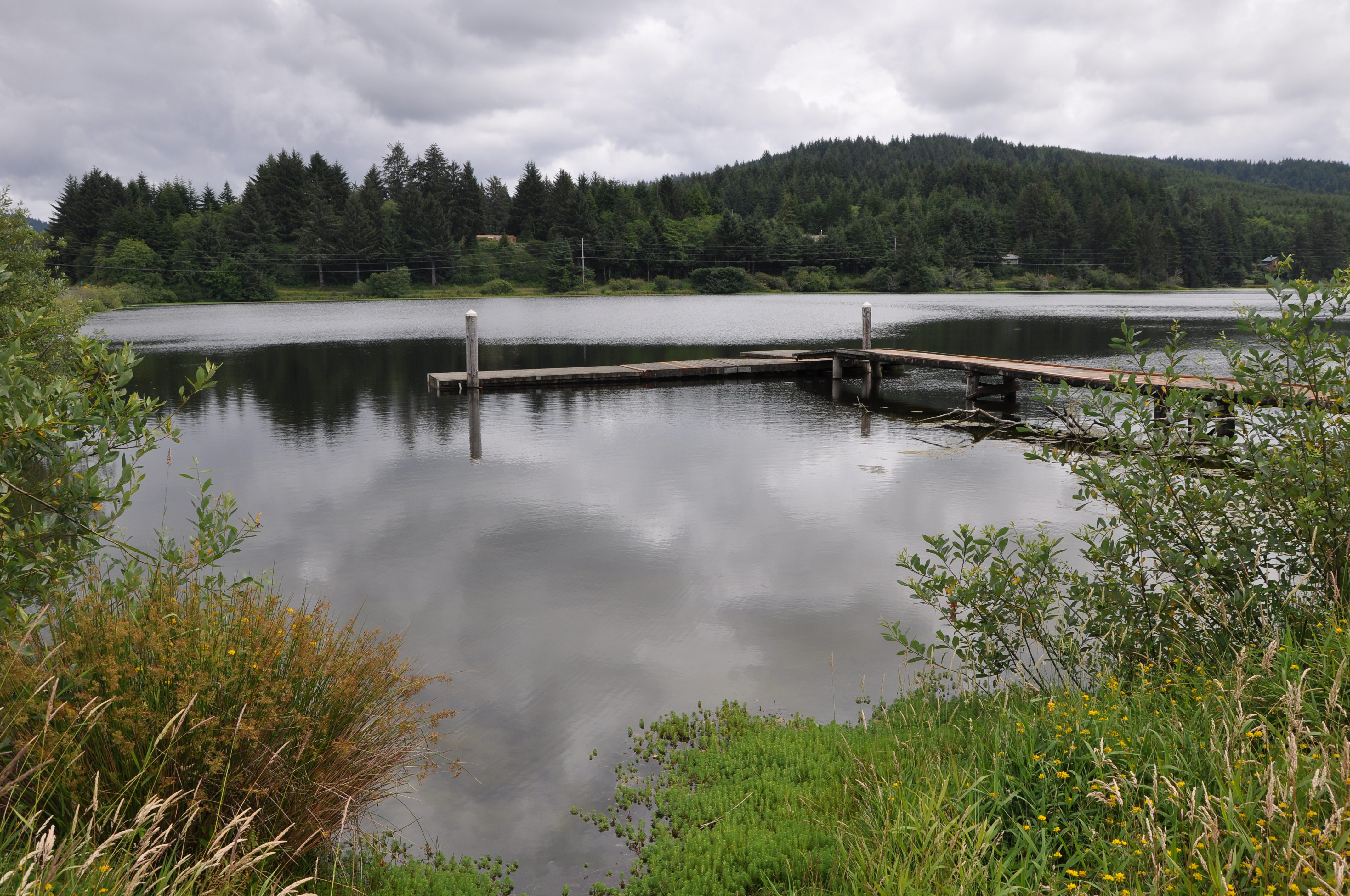 W. B. Nelson State Recreation Site near Waldport in the U.S. state of Oregon. The small park is along Oregon Route 34 and near the Alsea River.